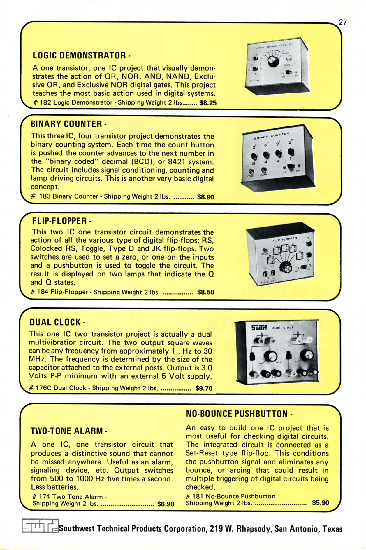 Southwest Technical Products Corporation catalog circa 1972. Founded by Daniel Meyer in 1964, SWTPC sold kits of parts for electronics projects published in magazines such as Popular Electronics and Radio-Electronics. In late 1975 they introduced the SWTPC 6800 Computer System based on the Motorola 6800 microprocessor. Logic Demonstrator designed by Don Lancaster and published in Radio-Electronics May 1972 Binary Counter designed by Frank Gross (aka Don Lancaster) and published in Radio-Electronics February 1972 Dual Clock Generator designed by Don Lancaster and published in Radio-Electronics February 1972 Two Tone Alarm designed by Don Lancaster and published in Popular Electronics February 1970 No-Bounce Push Button designed by Don Lancaster and published in Popular Electronics March 1970